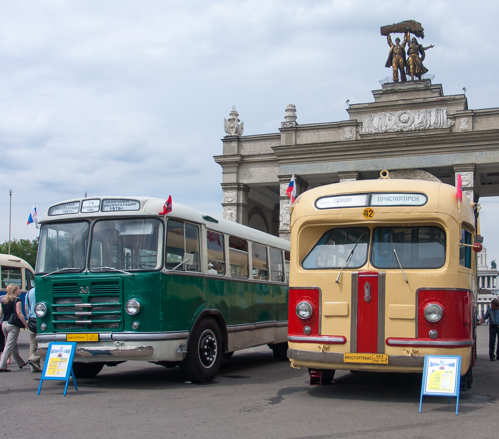 ZIL-158 and ZIS-154 buses / Moscow, Russia